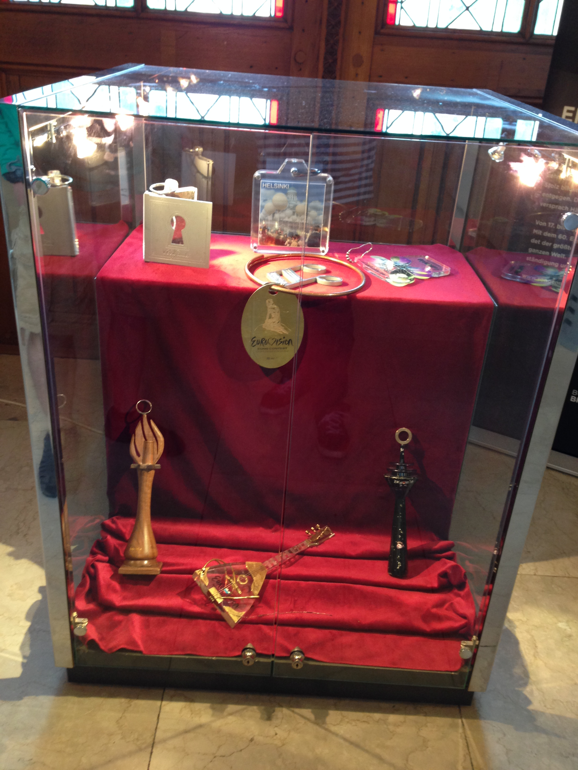 Eurovision Host City Insignia on display inside the Rauthaus in Vienna, Austria.